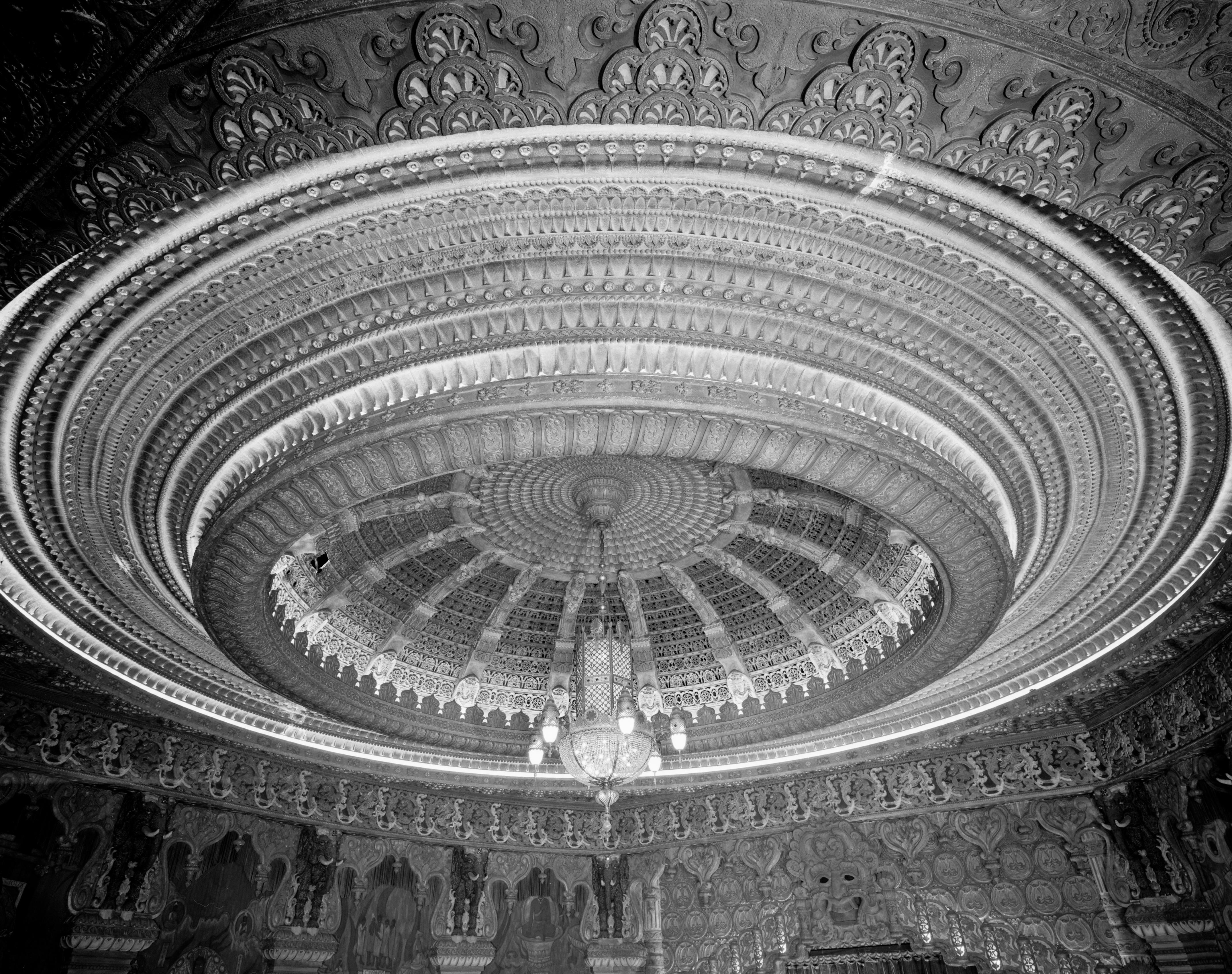 Oriental Theatre ceiling and dome interior, with electric chandelier. A movie palace-cinema formerly in Portland, Oregon — built in 1927 and demolished in 1970. 1969 photograph from the HABS—Historic American Buildings Survey images of Oregon. Credits File caption: 19. Historic American Buildings Survey, Lyle E. Winkle, Photographer November 11, 1969 AUDITORIUM CEILING DOME. HABS ORE,26-PORT,3-19